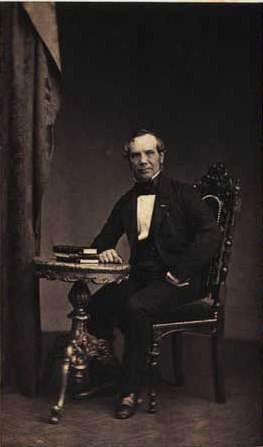 Holger Simon Paulli (1810-1891), Danish composer and conductor